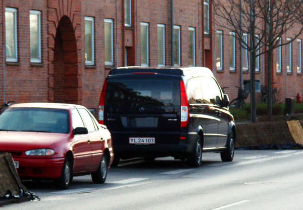 Van operated by operated by the danish police for photographing traffic speed violaters